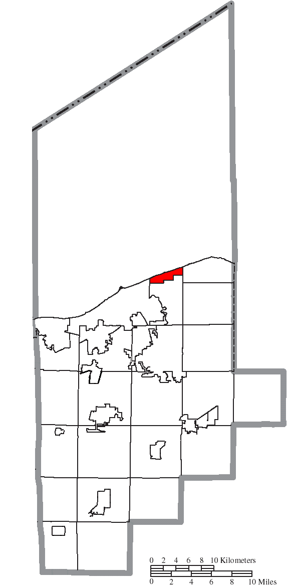 Map of the municipal and township boundaries of Lorain County, Ohio, United States, as of the 2000 census, with the location of the city of Sheffield Lake highlighted. Township borders are shown only in unincorporated areas in order to differentiate incorporated and unincorporated areas more clearly.